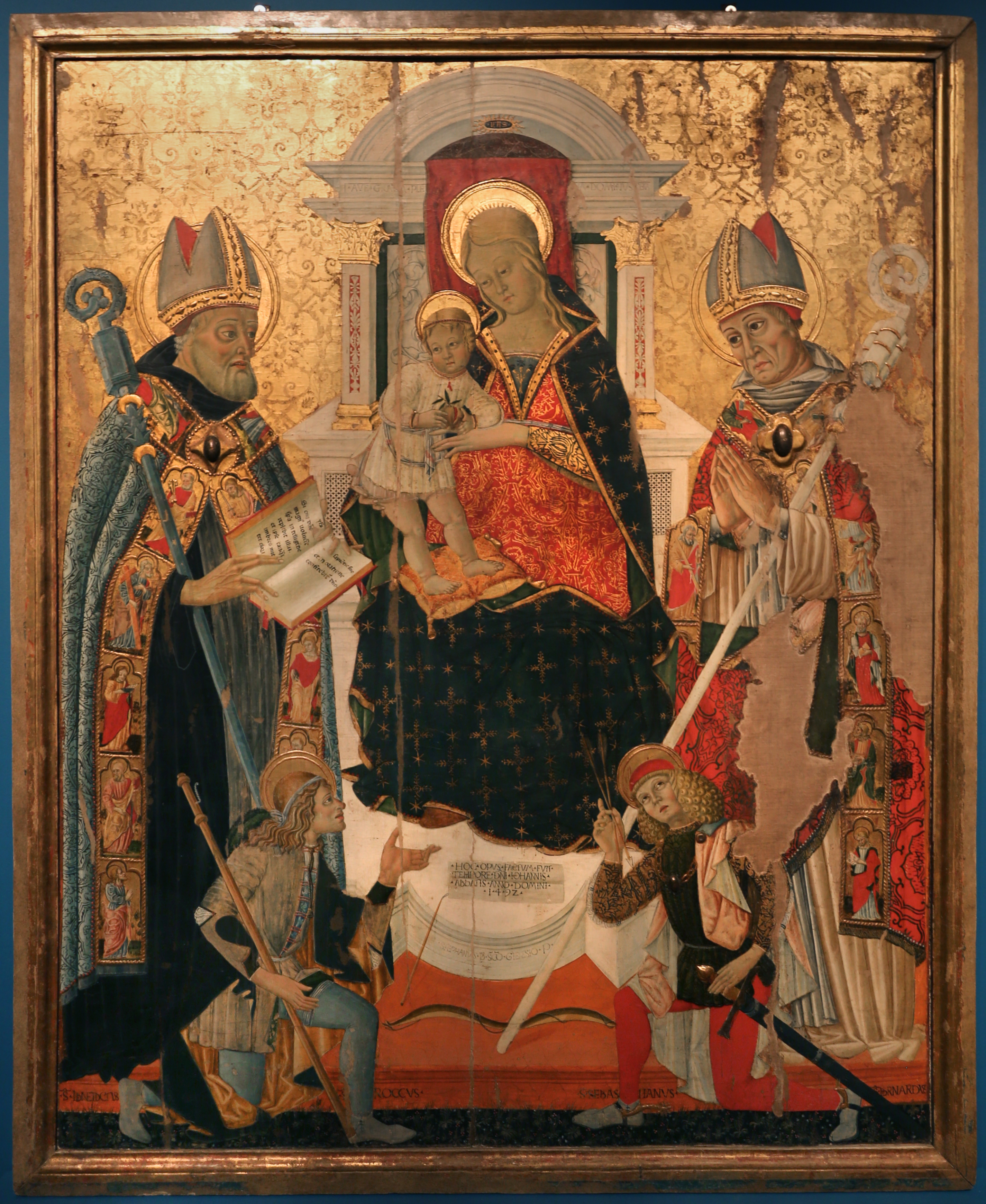 Capolavori Sibillini (2017-2018 exhibition)